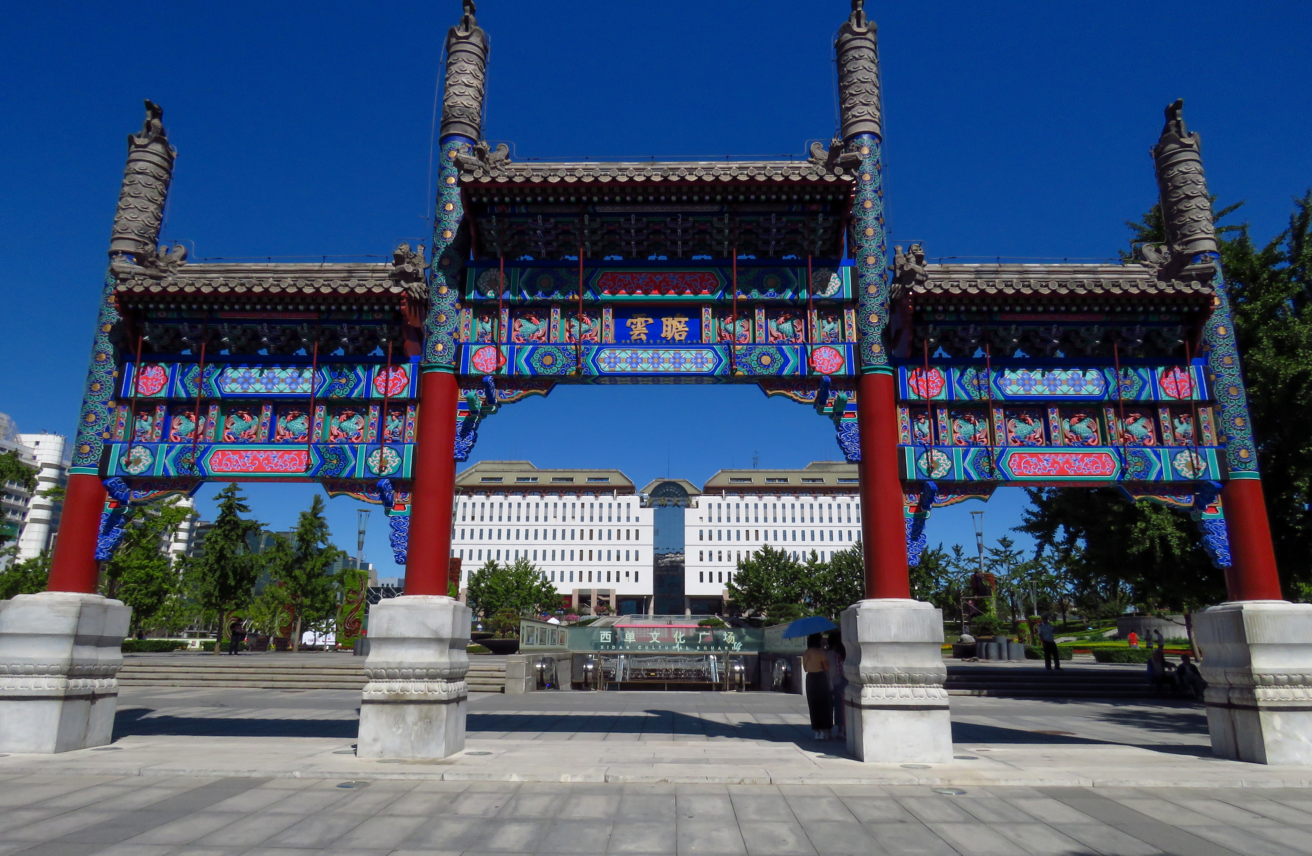 This one was actually built in 2008.